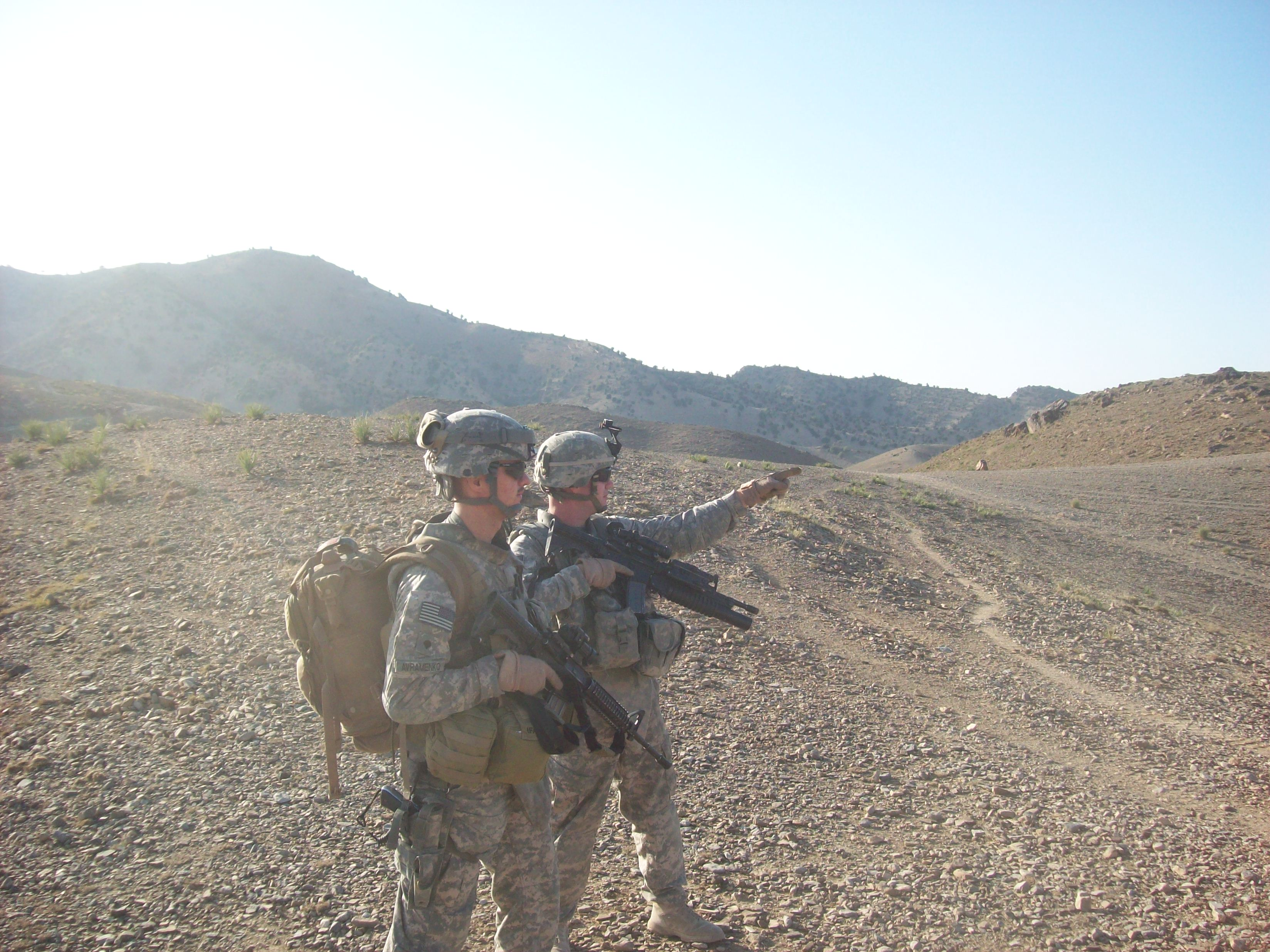 Specialist Alek Avramenko and Sergeant Jose Rose of the 1431st Co, 107th Engineer Battalion, scan for possible IED trigger points while conducting a dismounted patrol in Afghanistan's Sabari District, circa 2009.